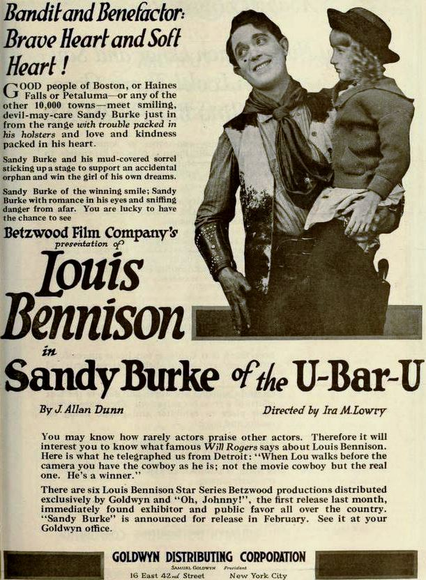 Ad for the American western film Sandy Burke of the U-Bar-U (1919) with Louis Bennison and child actress Virginia Lee Corbin, on page 419 of the January 25, 1919 Moving Picture World.